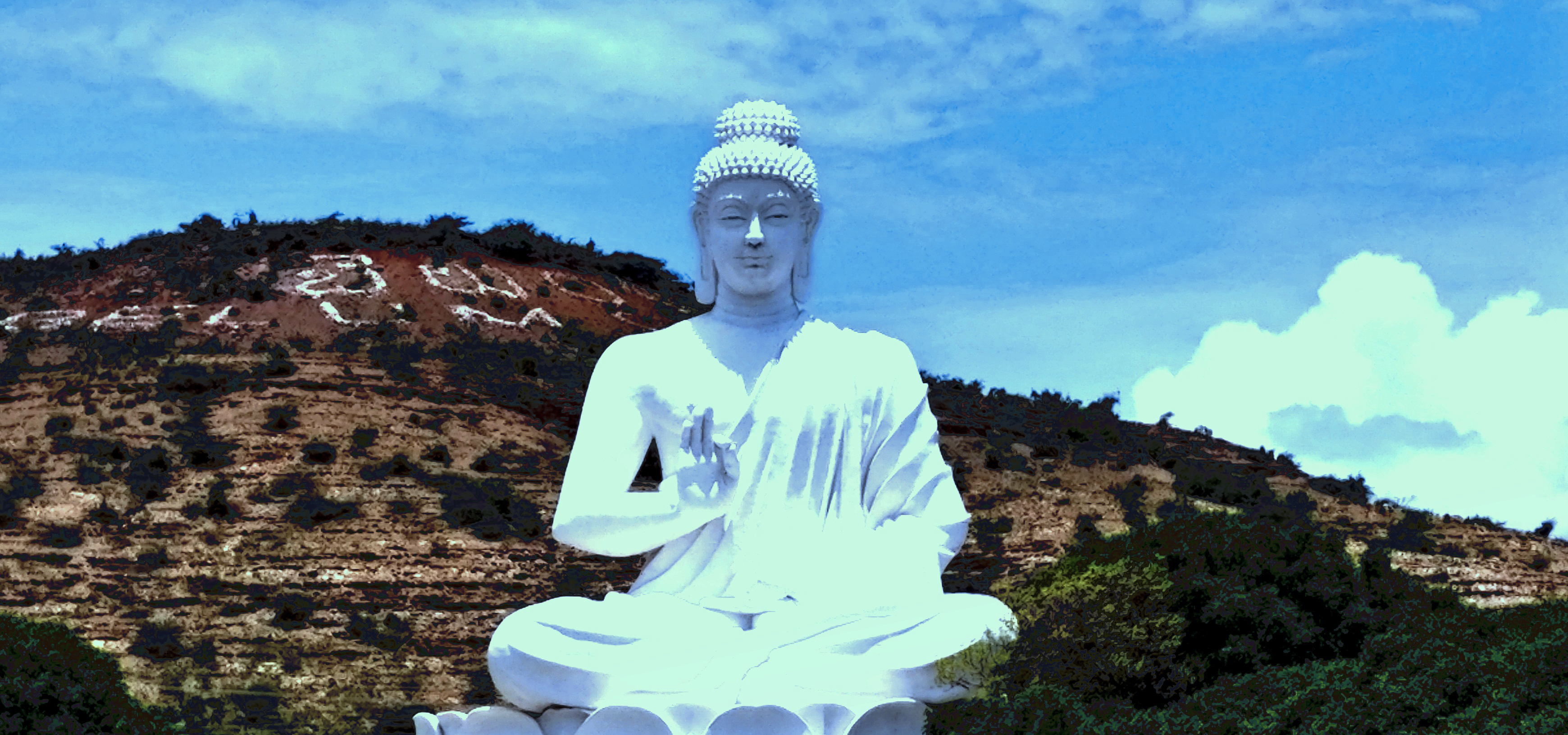 60 Feet Budha Statue at Belum caves